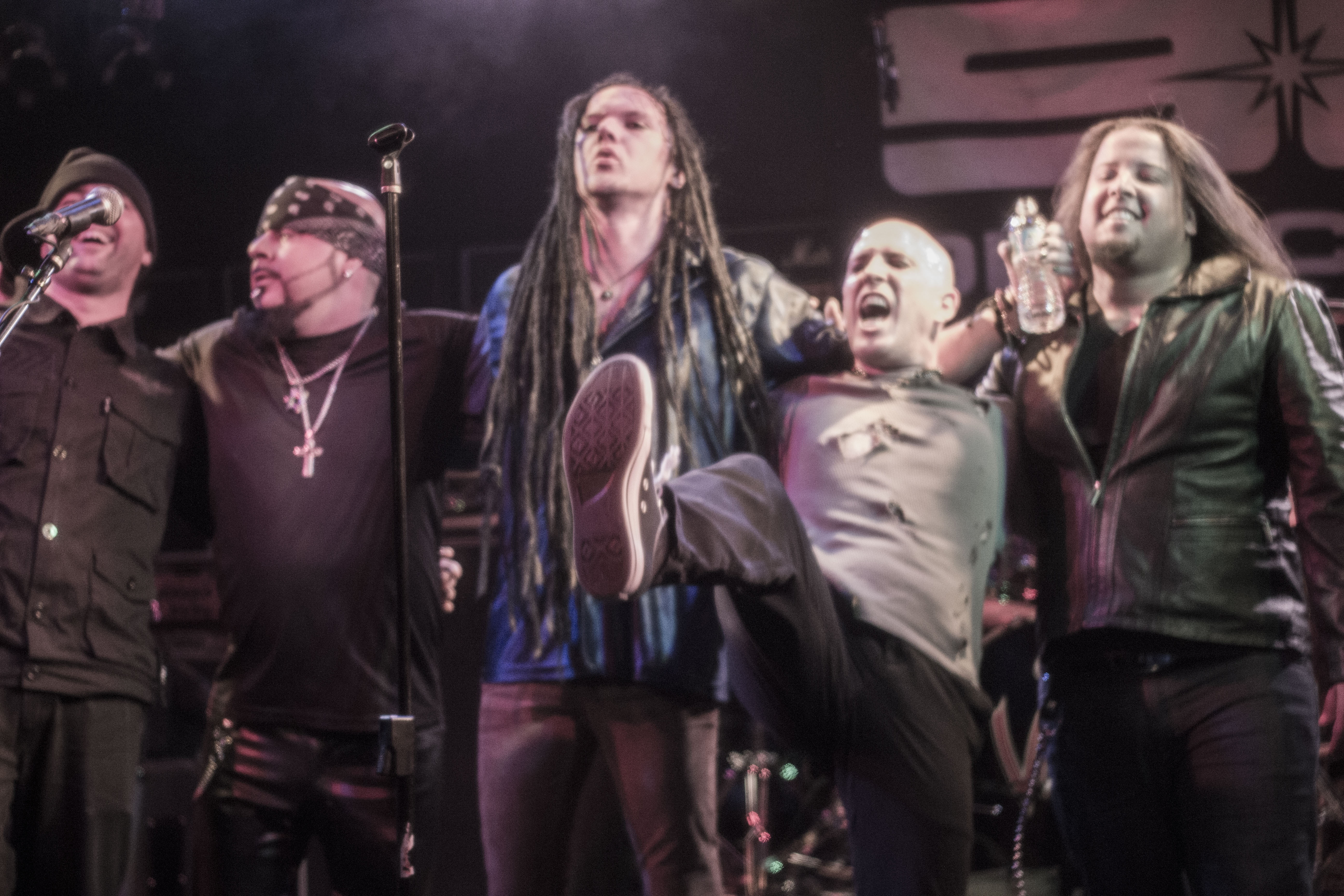 DriVeN during their performance at COunt's Vamp'd